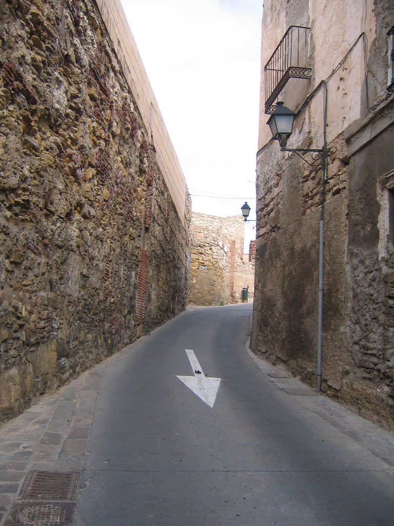 Street in Melilla (Spain)